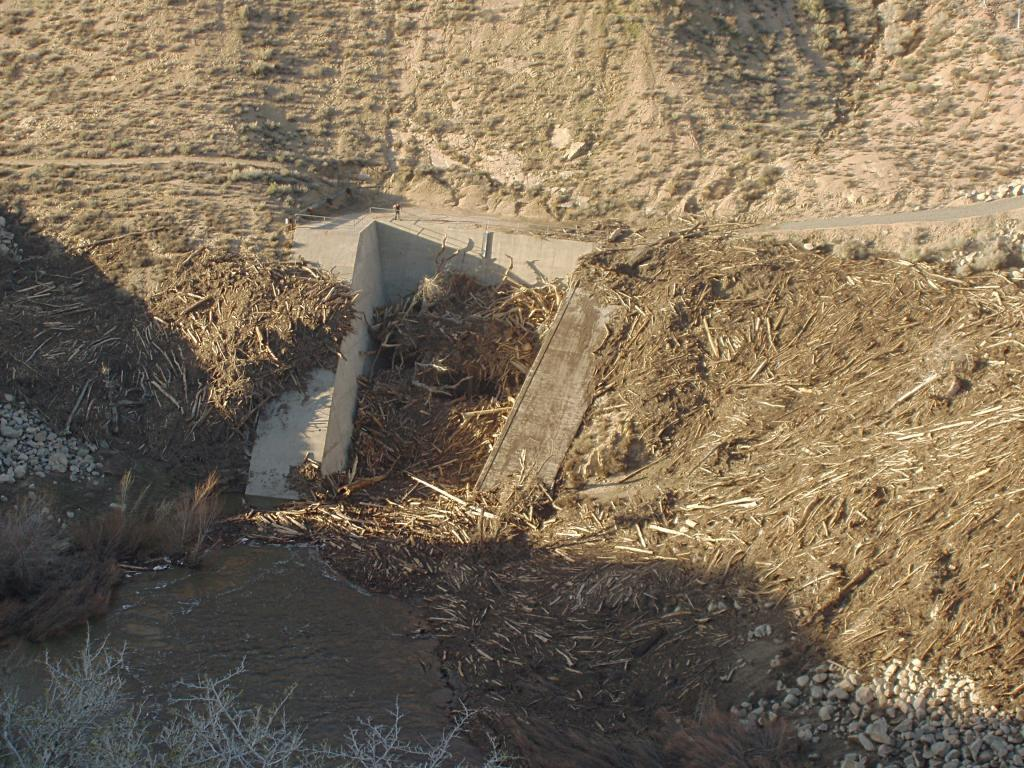 Clogged outlet at the Mojave River Dam — San Bernardino County, Southern California. logged by tree trunks due to a strong El Niño, in 2005.